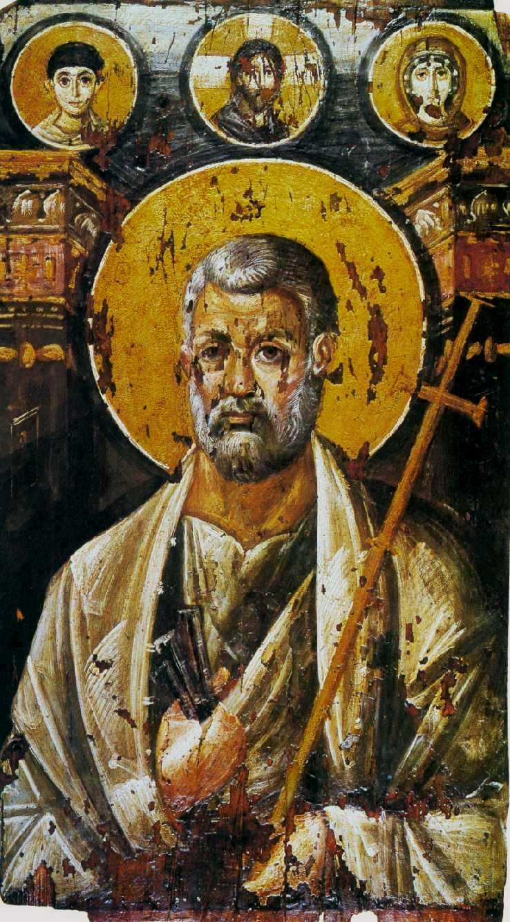 Saint Peter, a 6th-century encaustic icon from Saint Catherine's Monastery, Mount Sinai